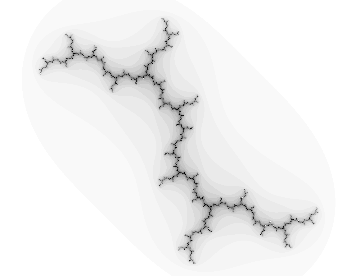 Julia set for parameters: Real=0 Imag=1 ("dendrite fractal")